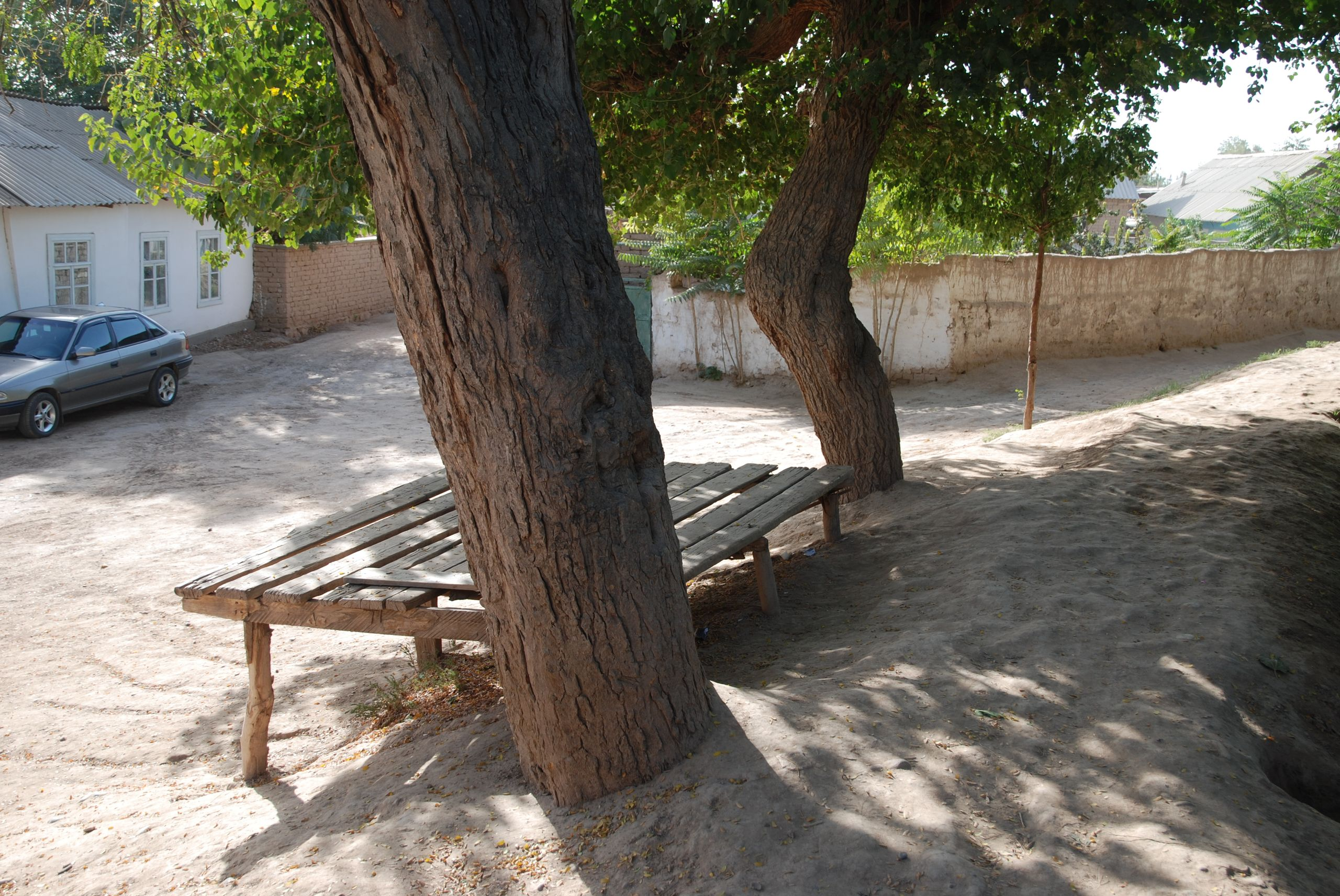 Tapchan in Shaartuz, Tajikistan